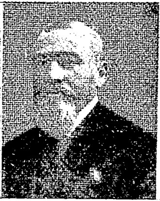 Mojżesz Helman